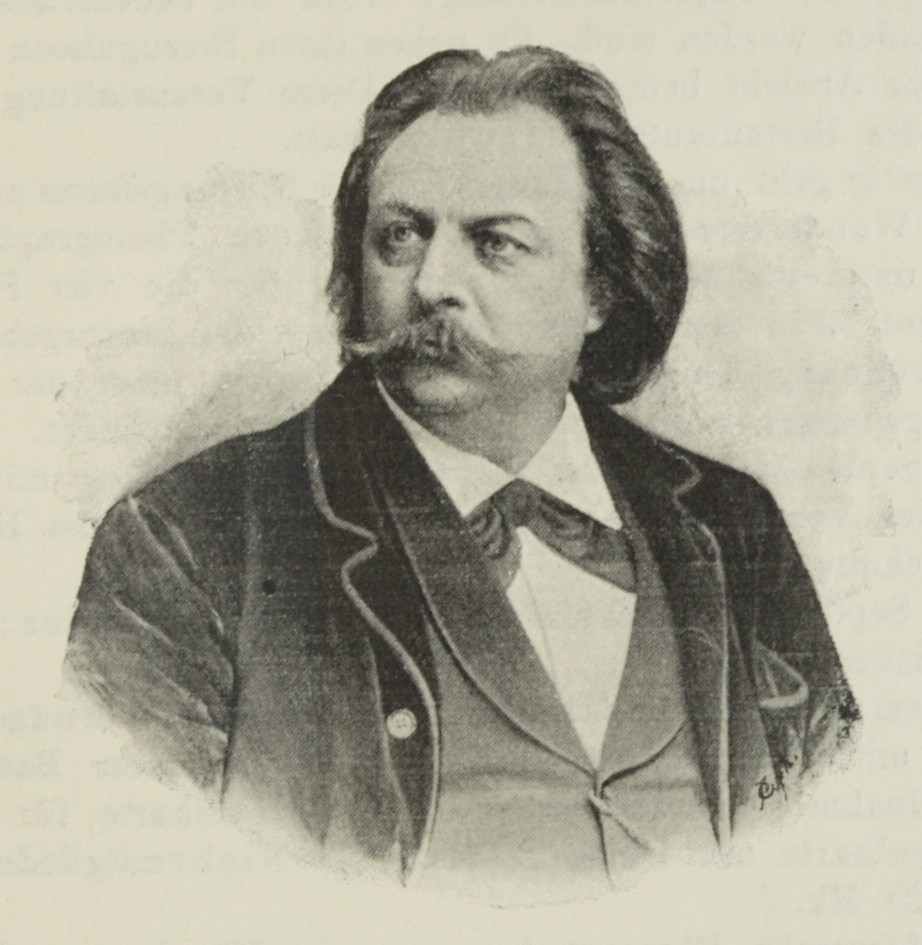 Thomas Heinrich Voigt (1838–1896), German photographer and painter.